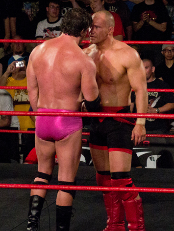 Mike Bennett and Lance Storm face off prior to their match at Showdown in the Sun Night 1 on March 30, 2012. Cropped from original.